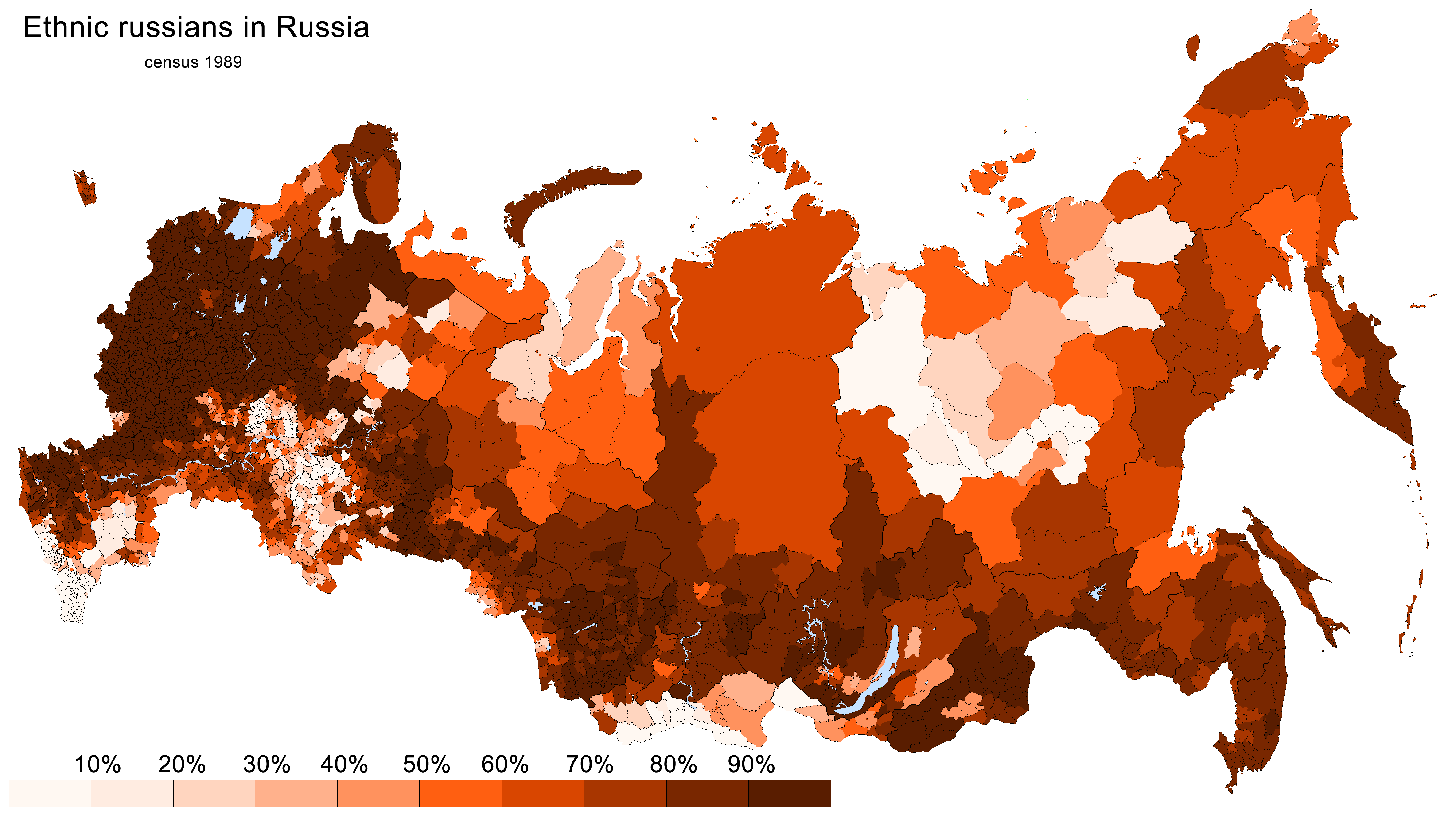 Percentage of ethnic russians in Russia according to 1989 Soviet census